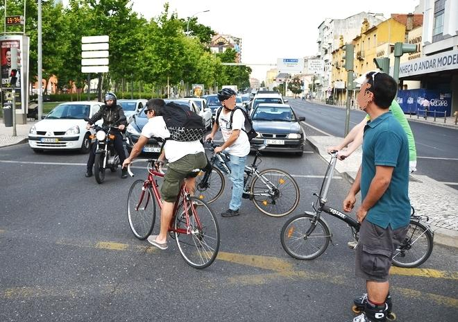 Corking on Critical Mass